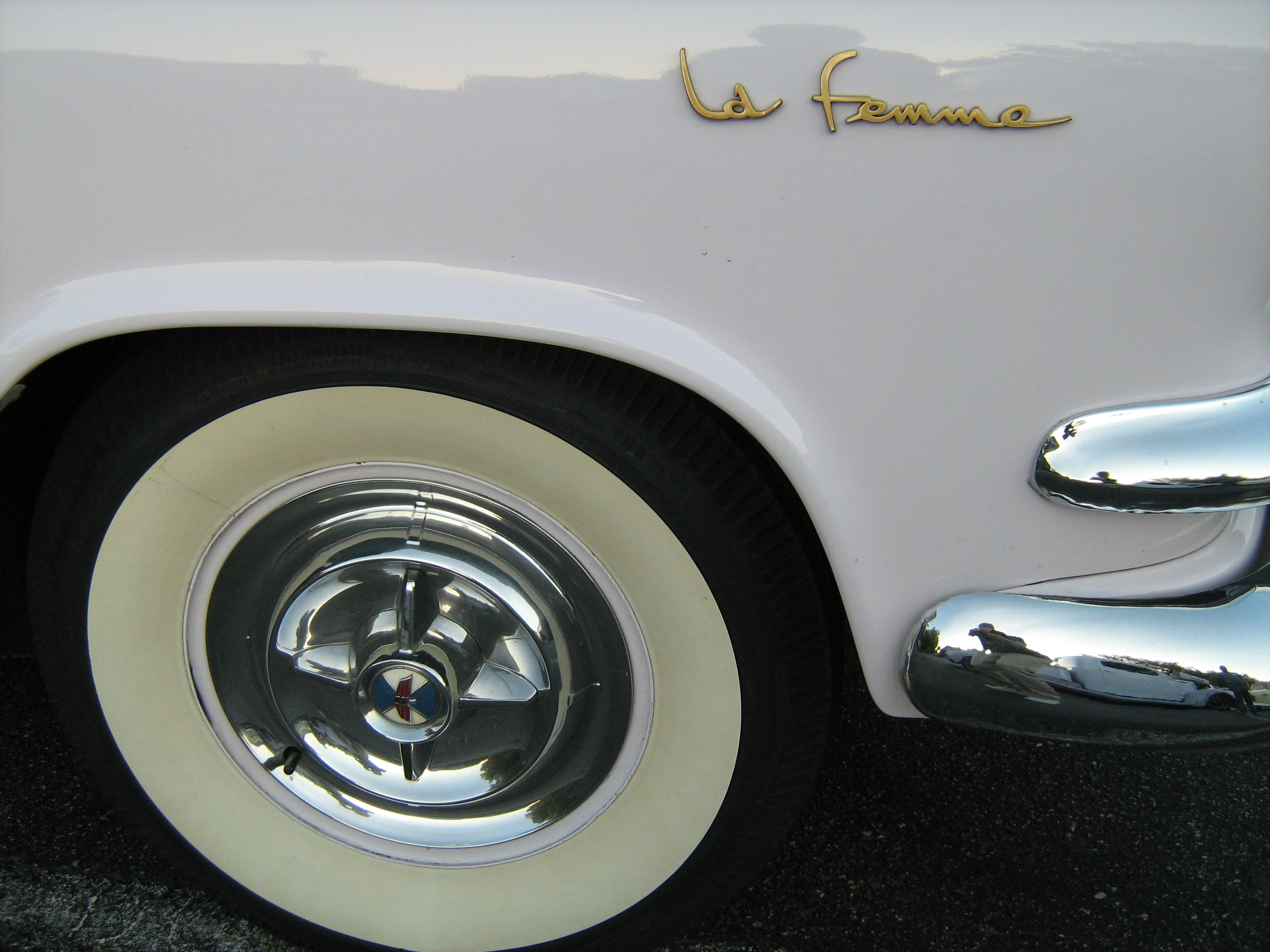 1956 Dodge La Femme - front fender emblem